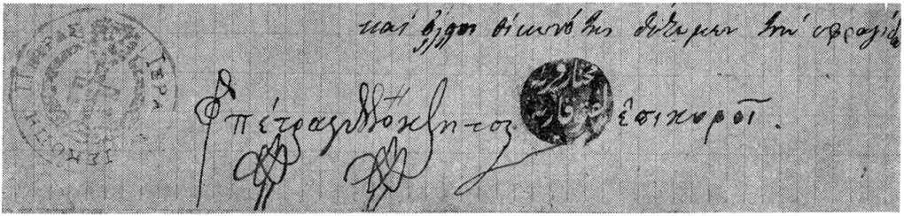 Signature ot Theoklitos of Petra 1893